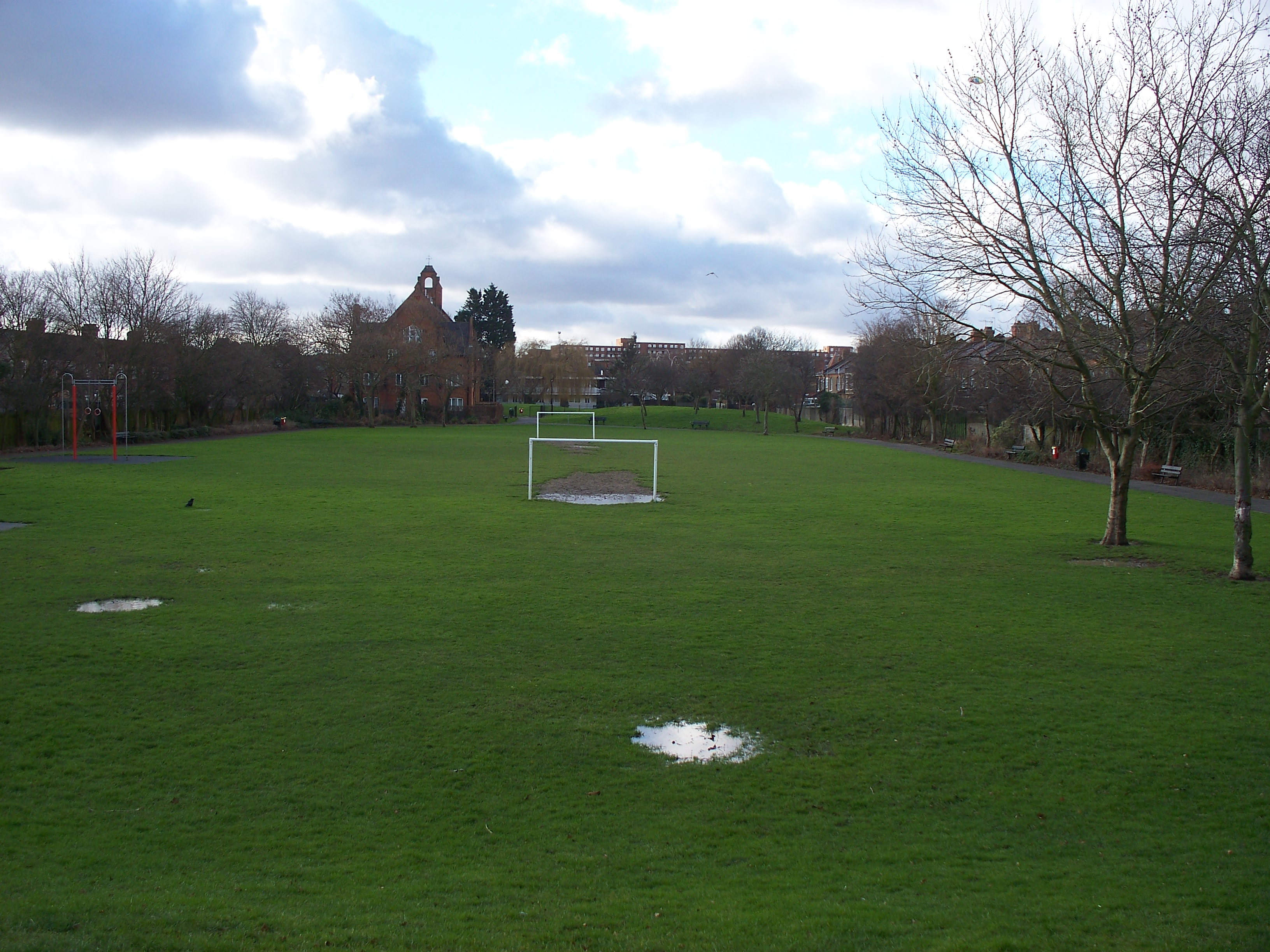 Noel Park, London N22